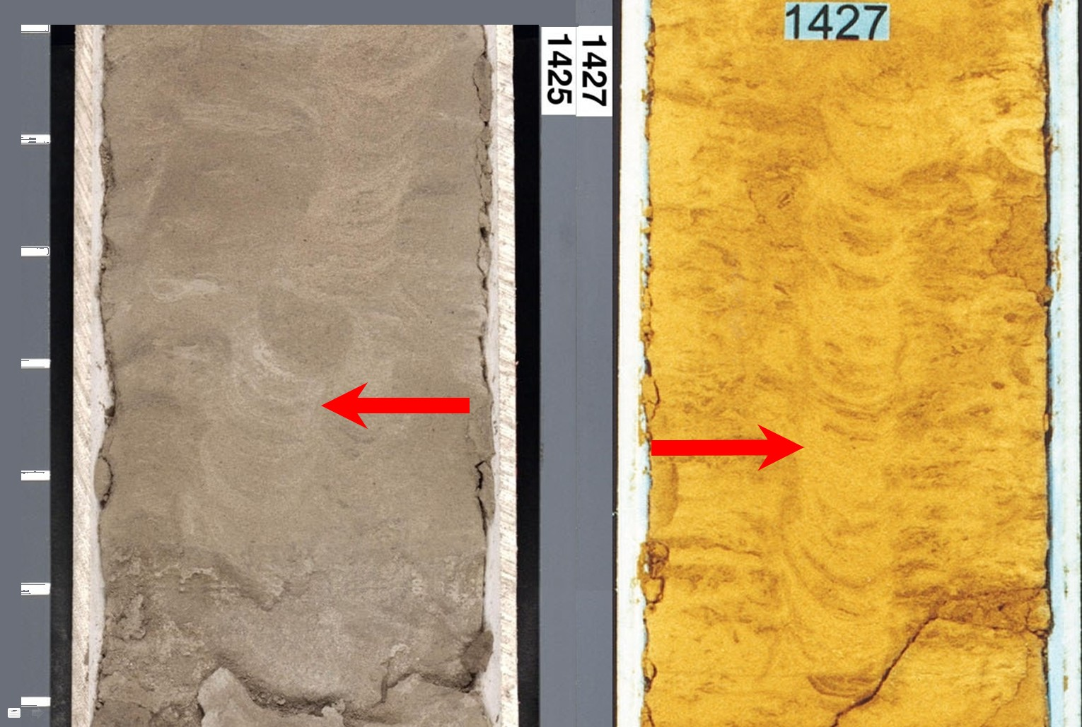 Teichichnus trace fossil in an Upper Miocene (Delmontian Stage) diatomite core from a well in Lost Hills Oil Field in California. The left-hand core is shown in white light; the right-hand core in UV light.